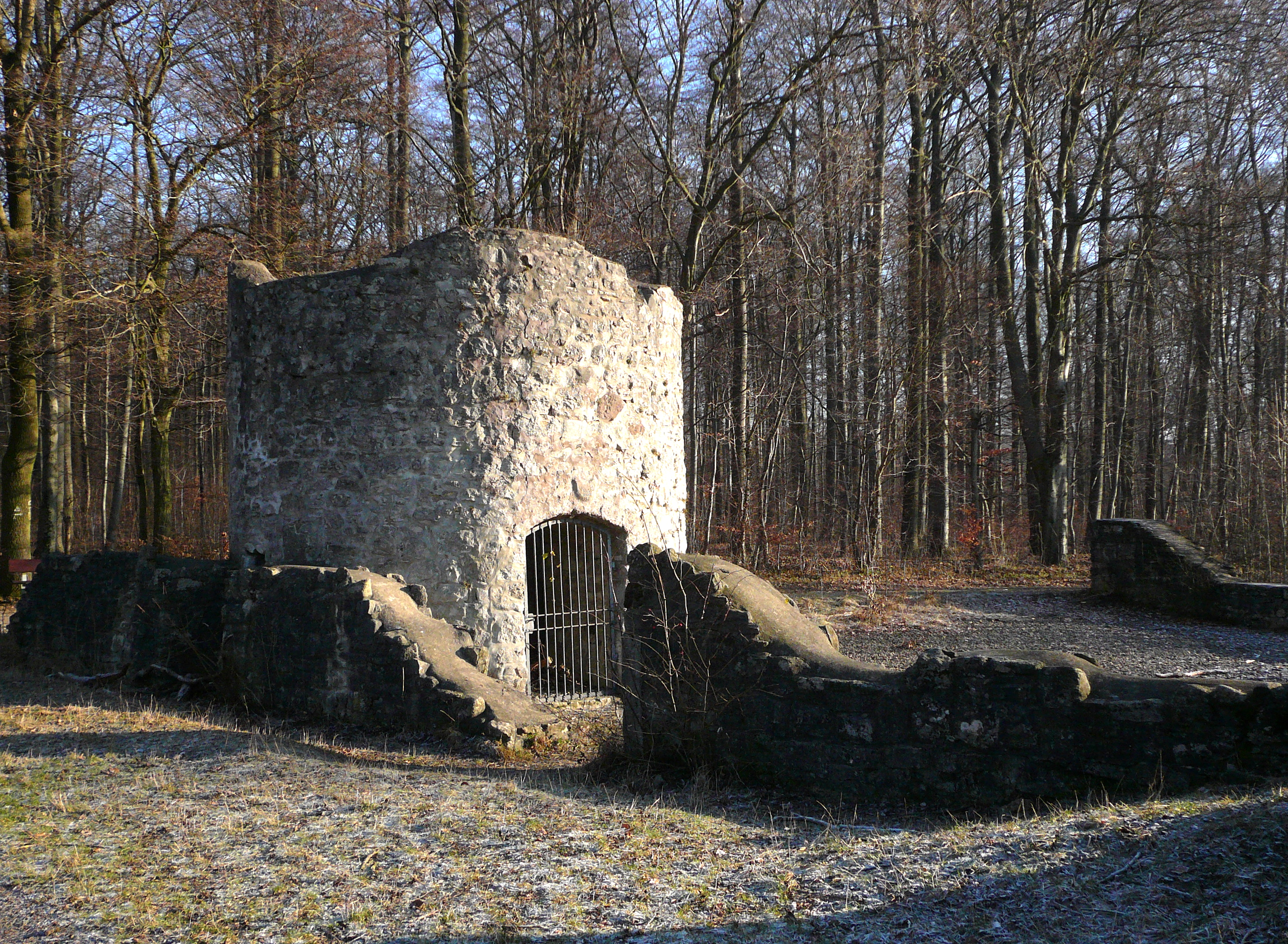 medieval watch tower north-east of Goettingen, Lower Saxony